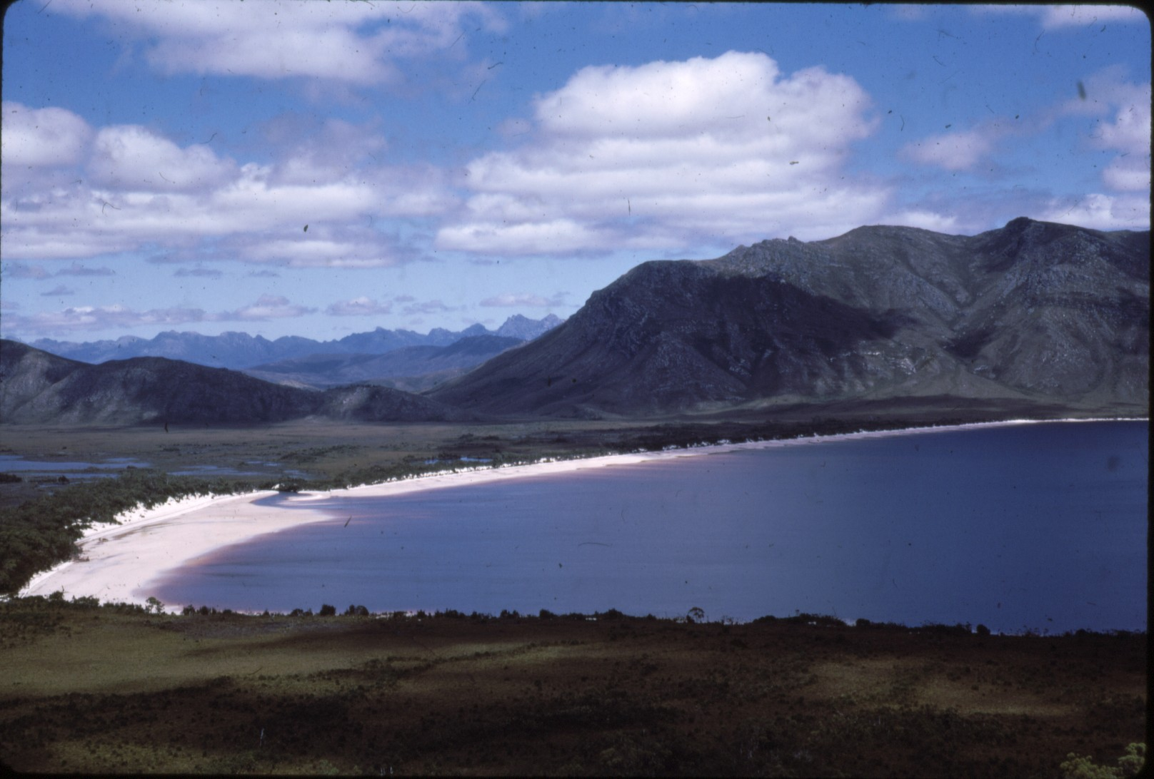 Part of a set of images of Lake Pedder, southwest Tasmania, taken between late 1968 and mid 1972, prior to the lake being destroyed in an act of government vandalism.